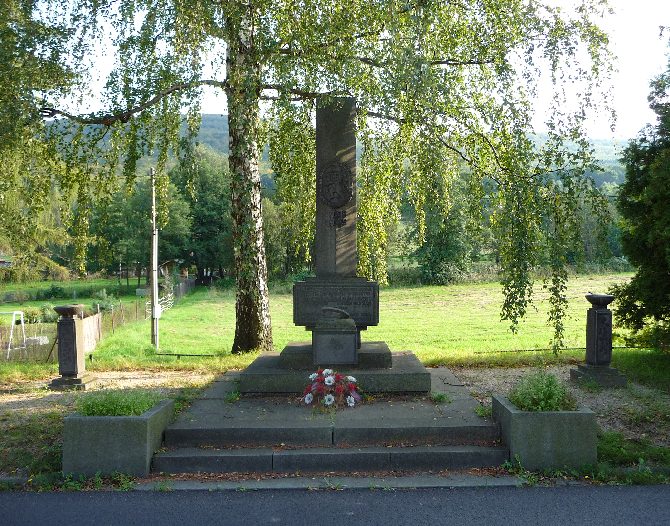 Monument in Dolní Podluží commemorating Jan Teichman and Václav Kozel, members of the Czechoslovak Finance Guard, killed by the Germans on 22 September 1938 (Ústí nad Labem Region, Czechia).